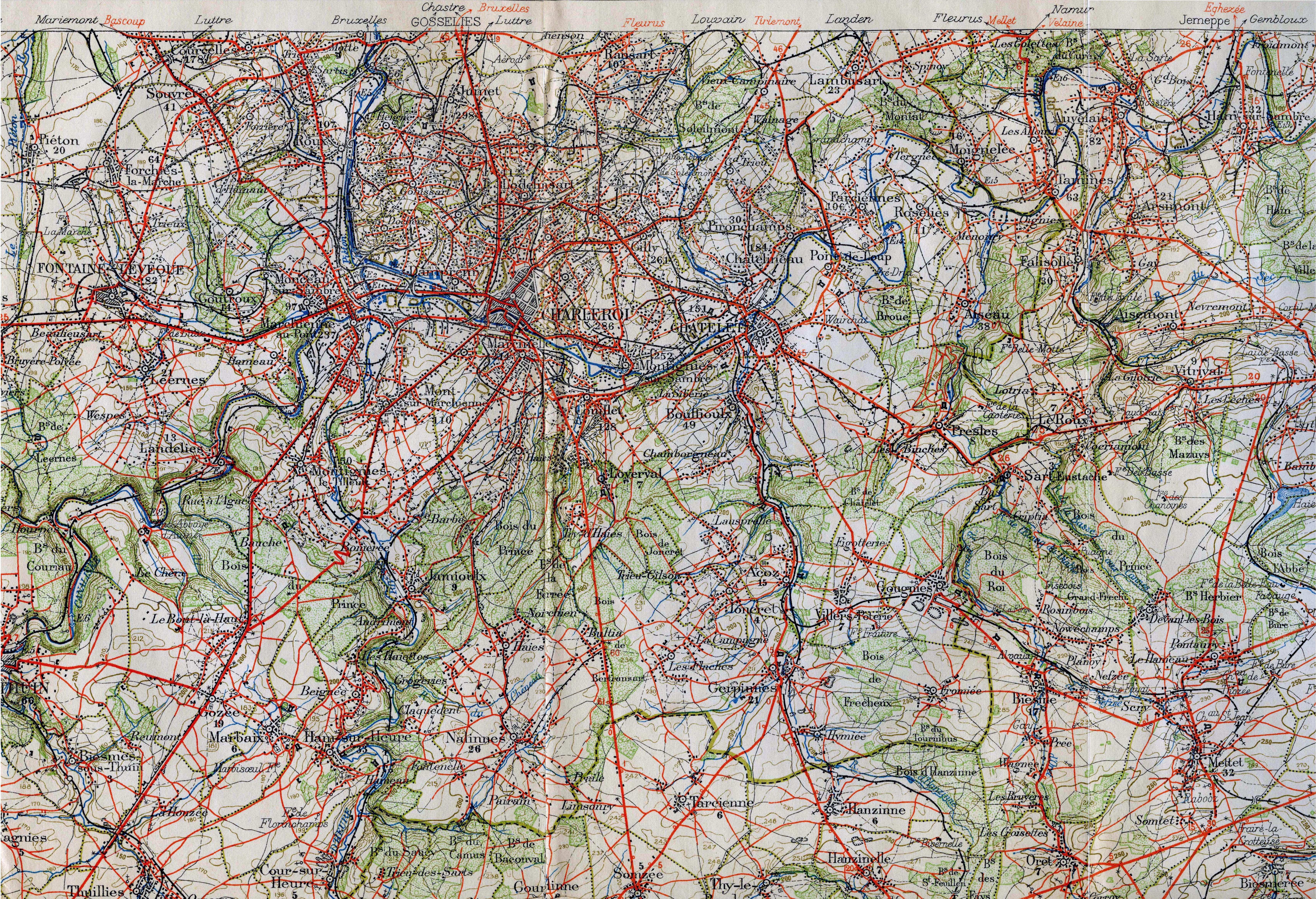 Militairy staff map in the area around Charleroi in 1933. It shows the vicinal lines and many railways. This military staff map was cut up and pasted on a canvas. Railway lines are black lines with marks on one side. Smalltrack is a thinner line. If there are marks on both sides it is double track. After 1933 more vicinal lines where build.